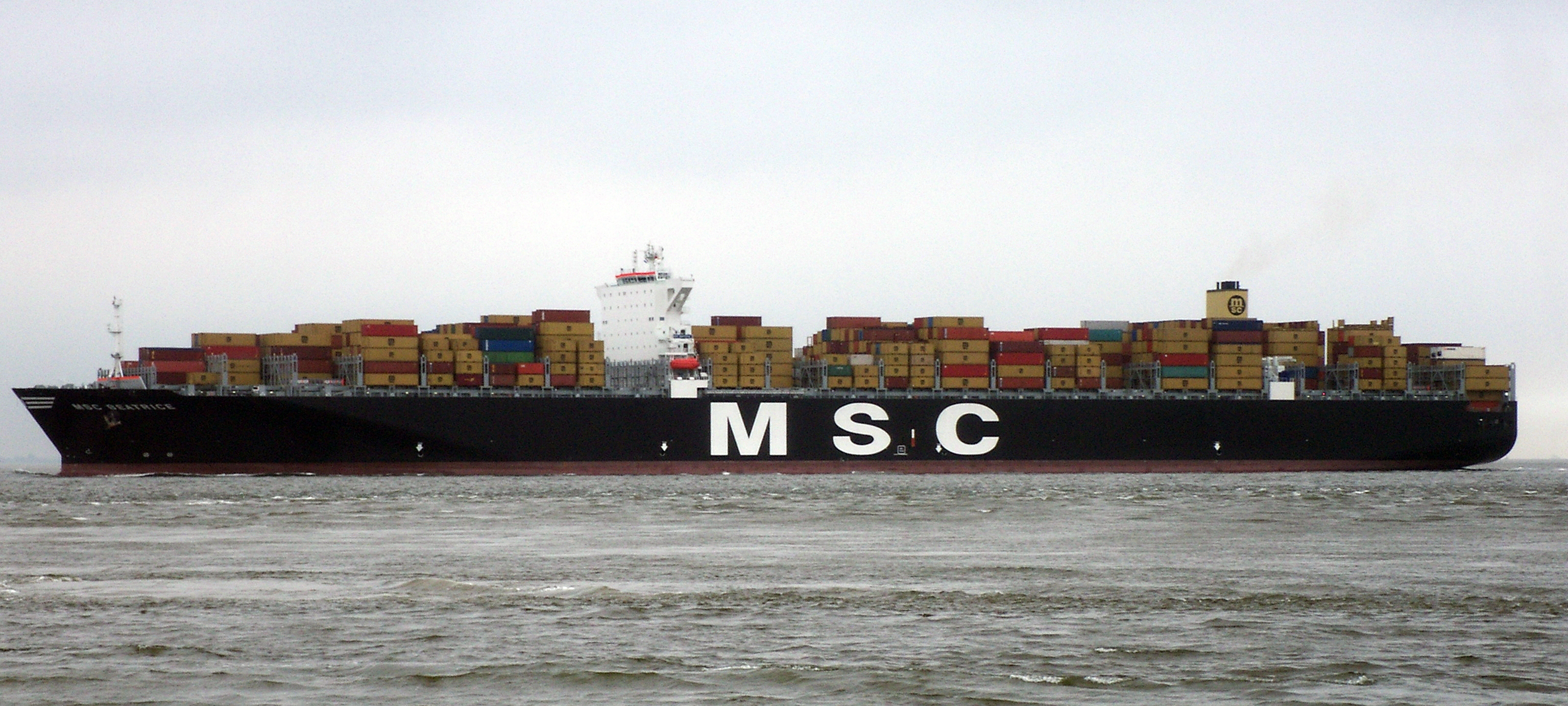 The M/V MSC Beatrice. A 14,000 TEU container vessel